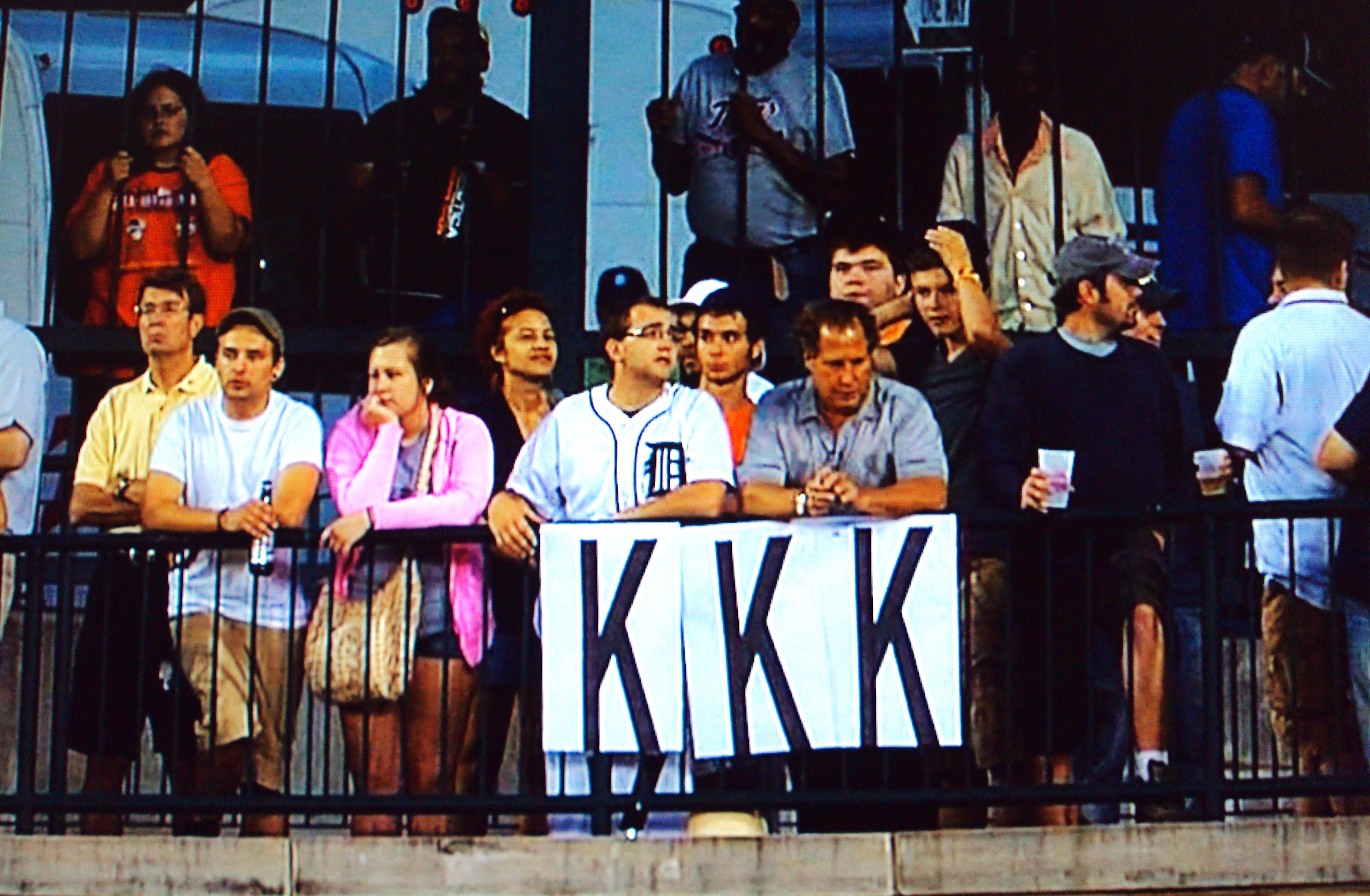 Strikeouts recorded by fans at Detroit Tigers baseball game